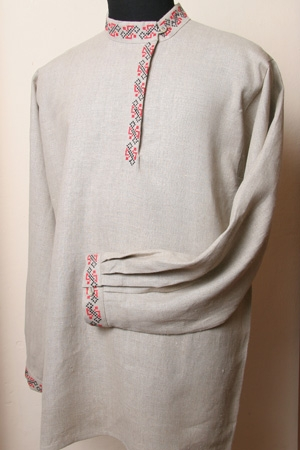 Kosovorotka